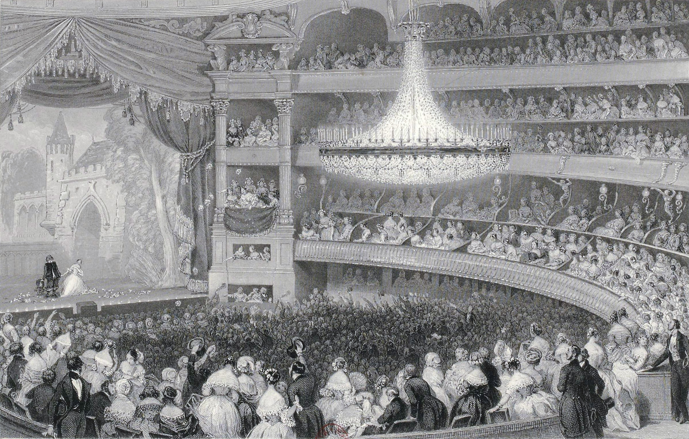 Lithograph showing the interior of the Théâtre-Italien (Salle Ventadour) in Paris, "Ovation for an Actor", published by Aubert & Compagnie, Place de la Bourse, Paris, July 1, 1842. Included in Un hiver à Paris by Jules Janin; engravings after Eugène Lami.